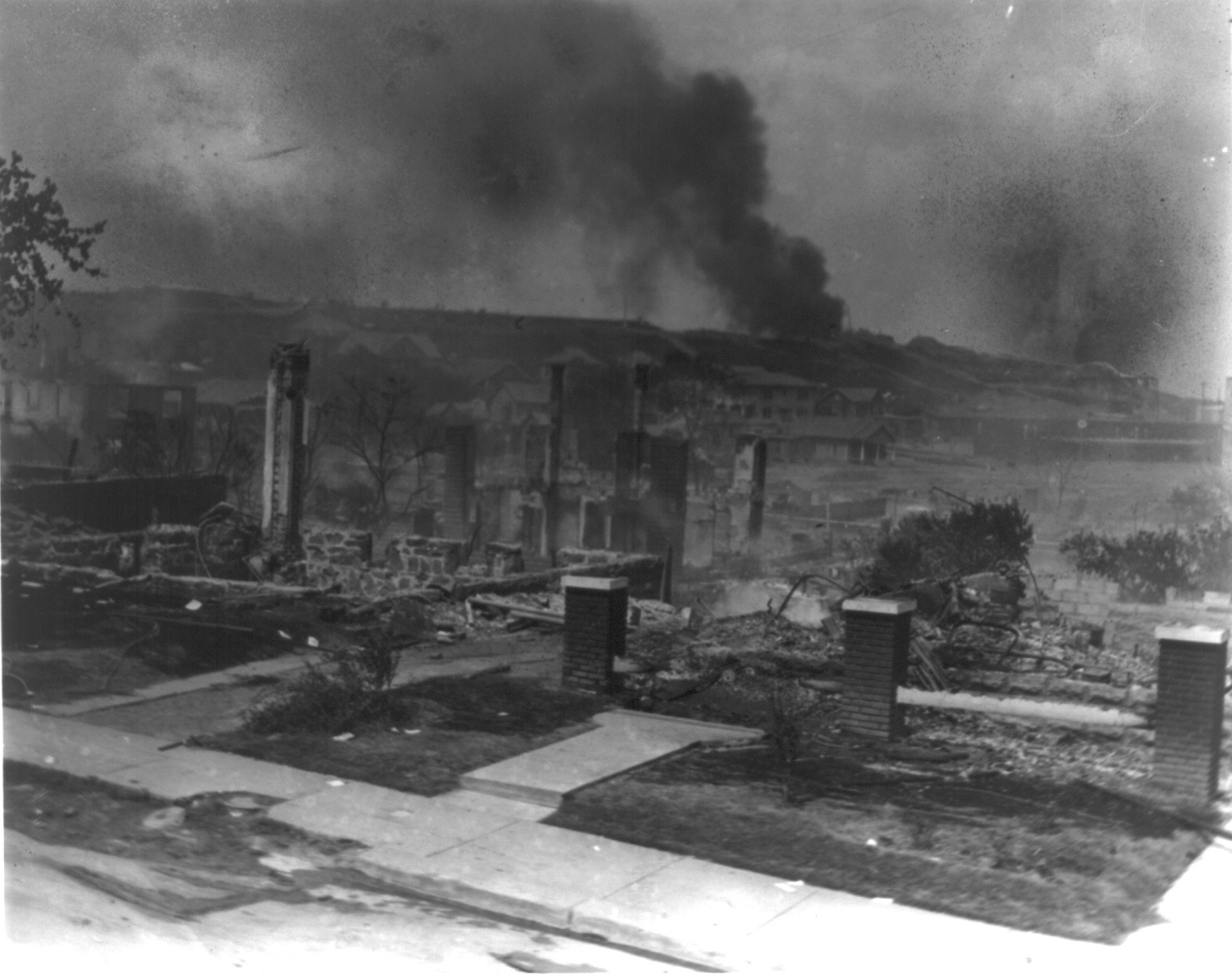 Smoldering ruins of African American's homes following race riots in Tulsa, Okla., in 1921